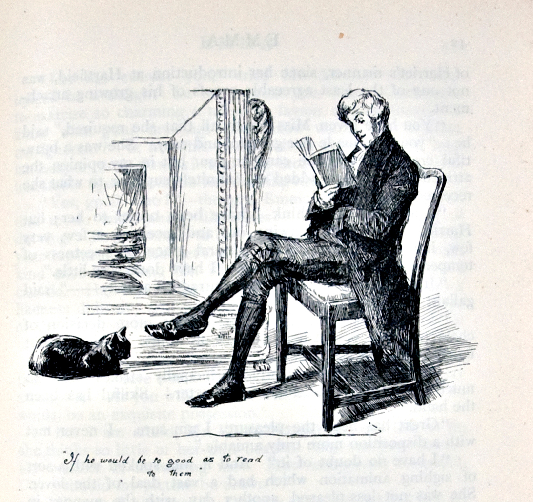 "If he would be so good as to read to them" - Mr. Elton reads to Emma and Harriet. London: George Allen, 1898, page 41.